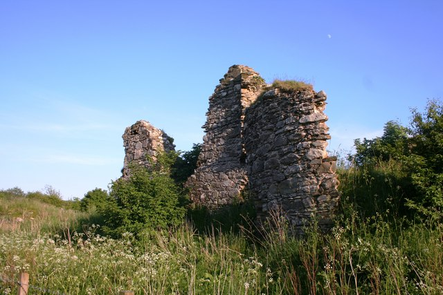 Curtains of Stone Once a proud boast of the defensive properties of the Black Castle of Moulin the "curtains of stone" are now looking a little tattered.